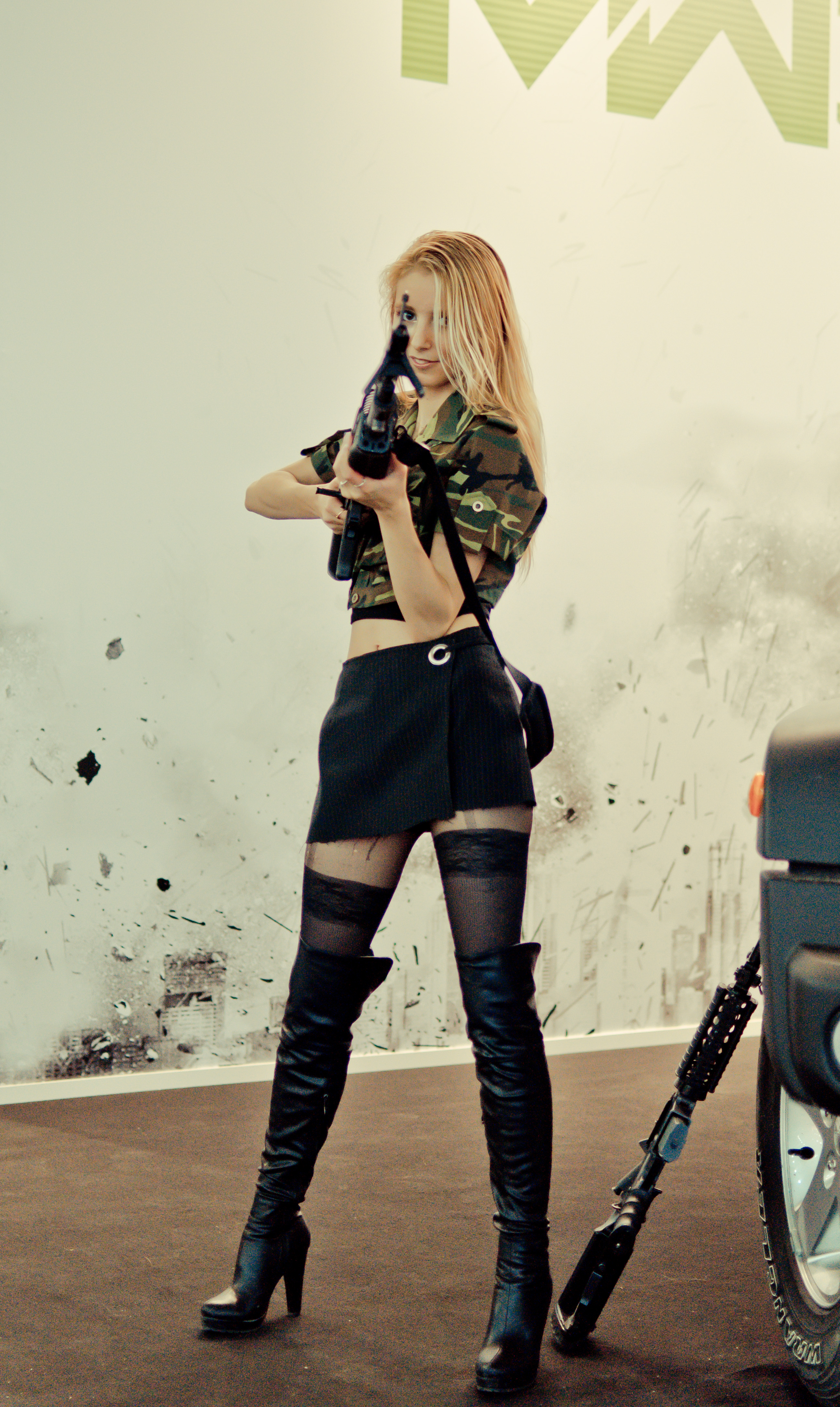 Call of Duty: Modern Warfare 3 girl at Igromir 2011